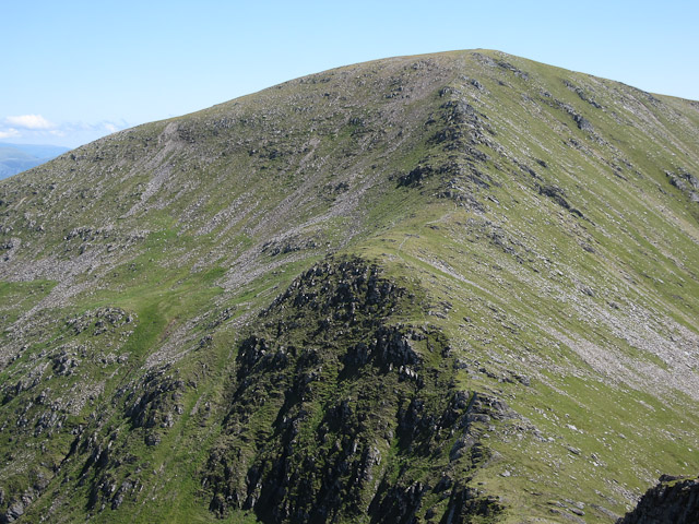 Sgùrr a' Chaorachain From the summit of Sgùrr Choinnich, showing the path that connects these two Munros.